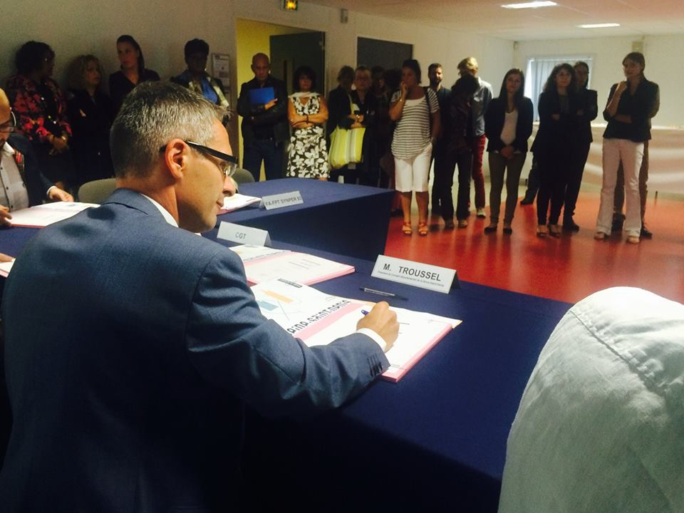 Stéphane Troussel, en 2015